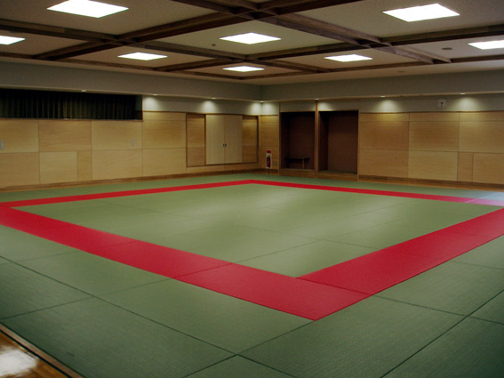 Judo court of the Chiba Prefectural Inba Meisei High School